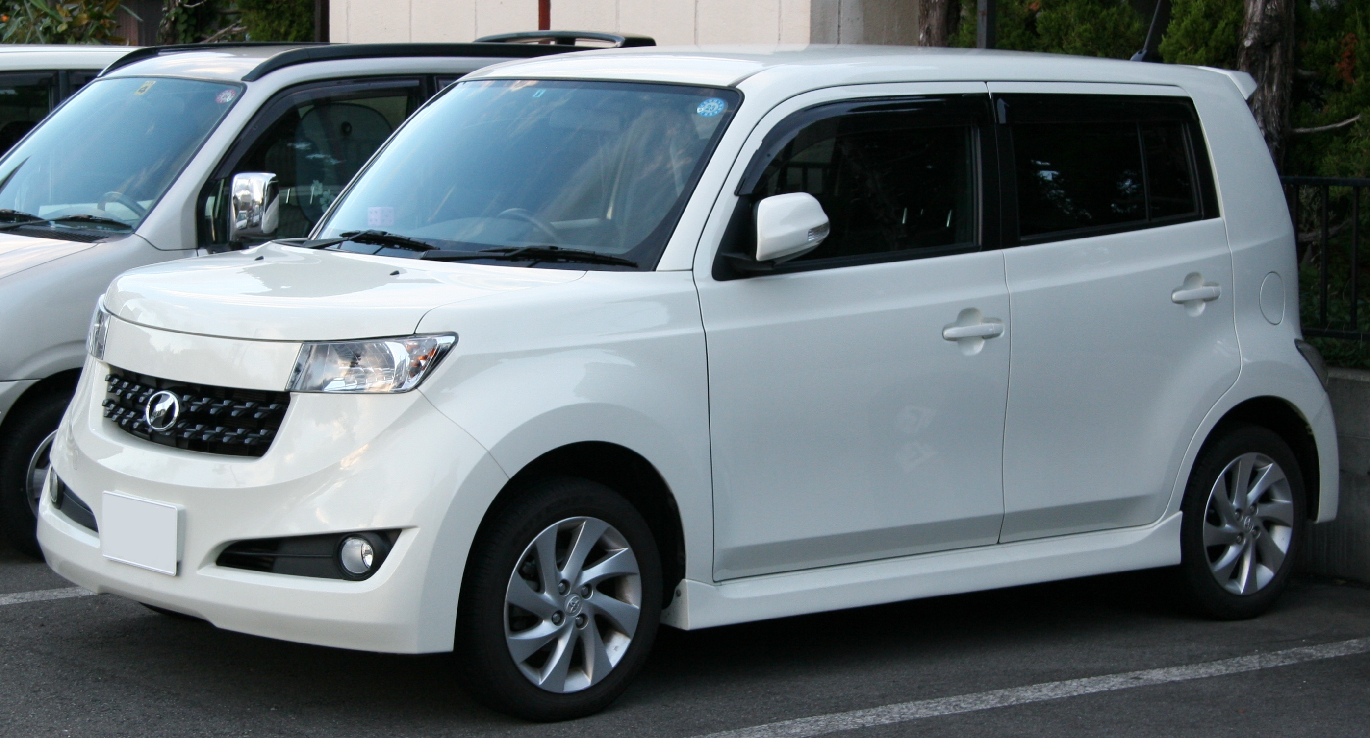 Toyota bB